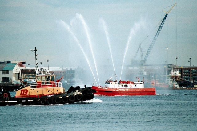 The following is the author's description of the photograph quoted directly from the photograph's Flickr page."The Boston Boston Fire boat was escorting a Canadian Coast Guard vessel into the harbor. "